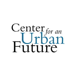 Center for an Urban Future logo